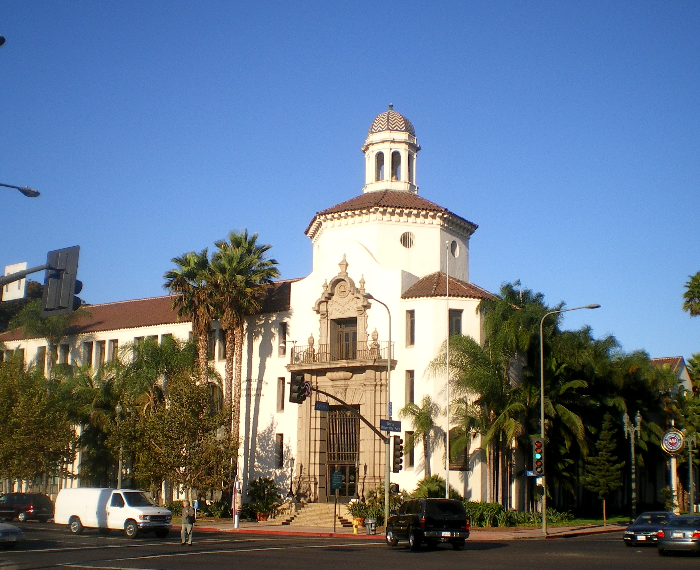 Automobile Club of Southern California - headquarters building. Located at 2601 S. Figueroa Street, West Adams district, Los Angeles, California. Designed by Sumner Hunt in the Spanish Colonial Revival style, built in 1922. Los Angeles Historic-Cultural Monument #72.